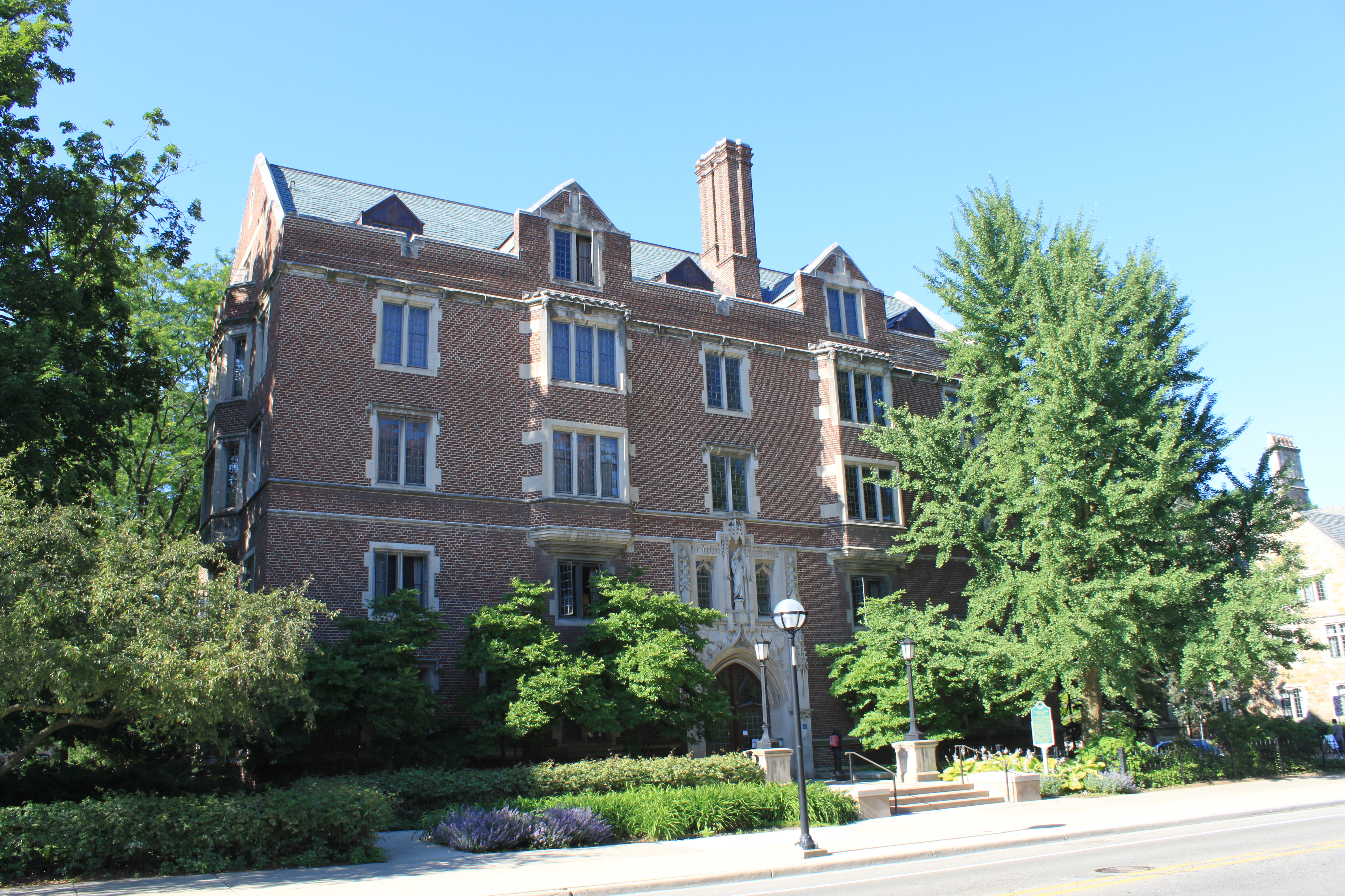 Martha Cook Building, University of Michigan, 906 South University, Ann Arbor, Michigan. The building is on the list of Michigan State Histical Sites.